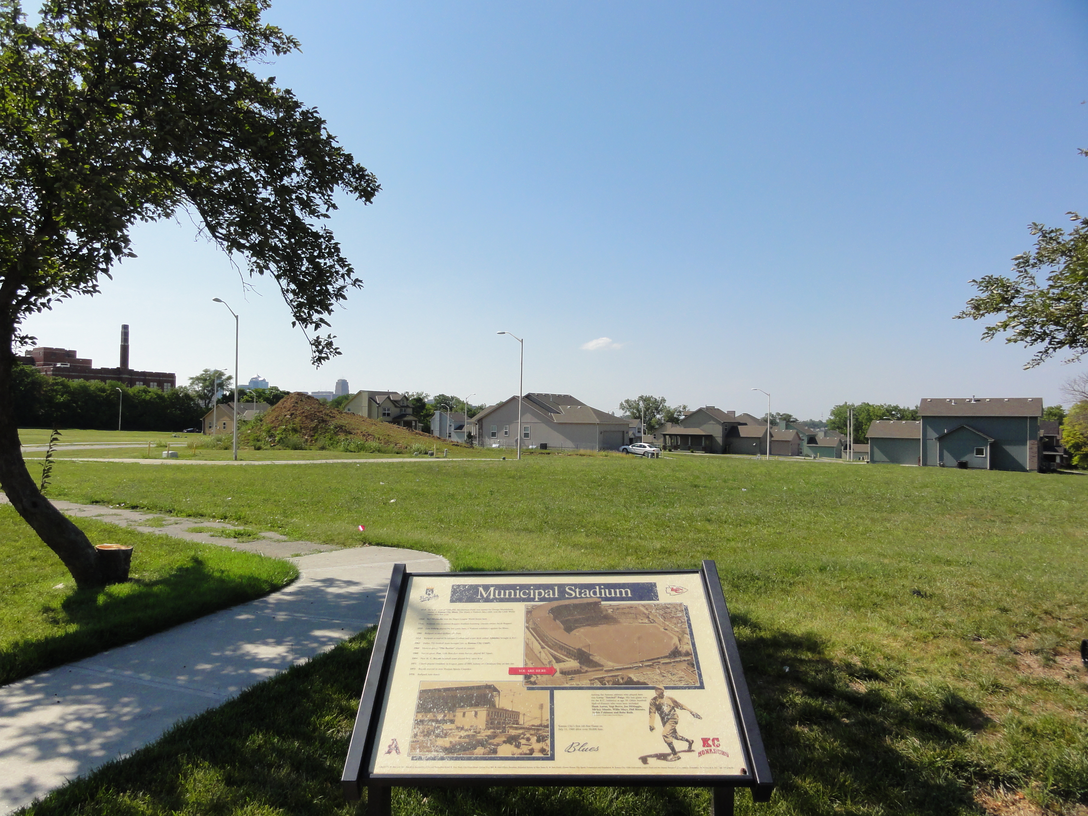 The site of Kansas City Municipal Stadium in 2012. It is now largely ocuppied by a housing development; a plaque at 22nd and Brooklyn marks the site.